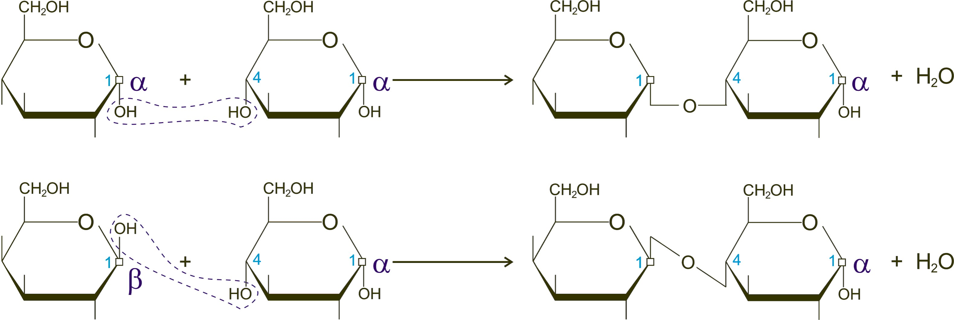 glycosidic bonds in disaccharides jpg